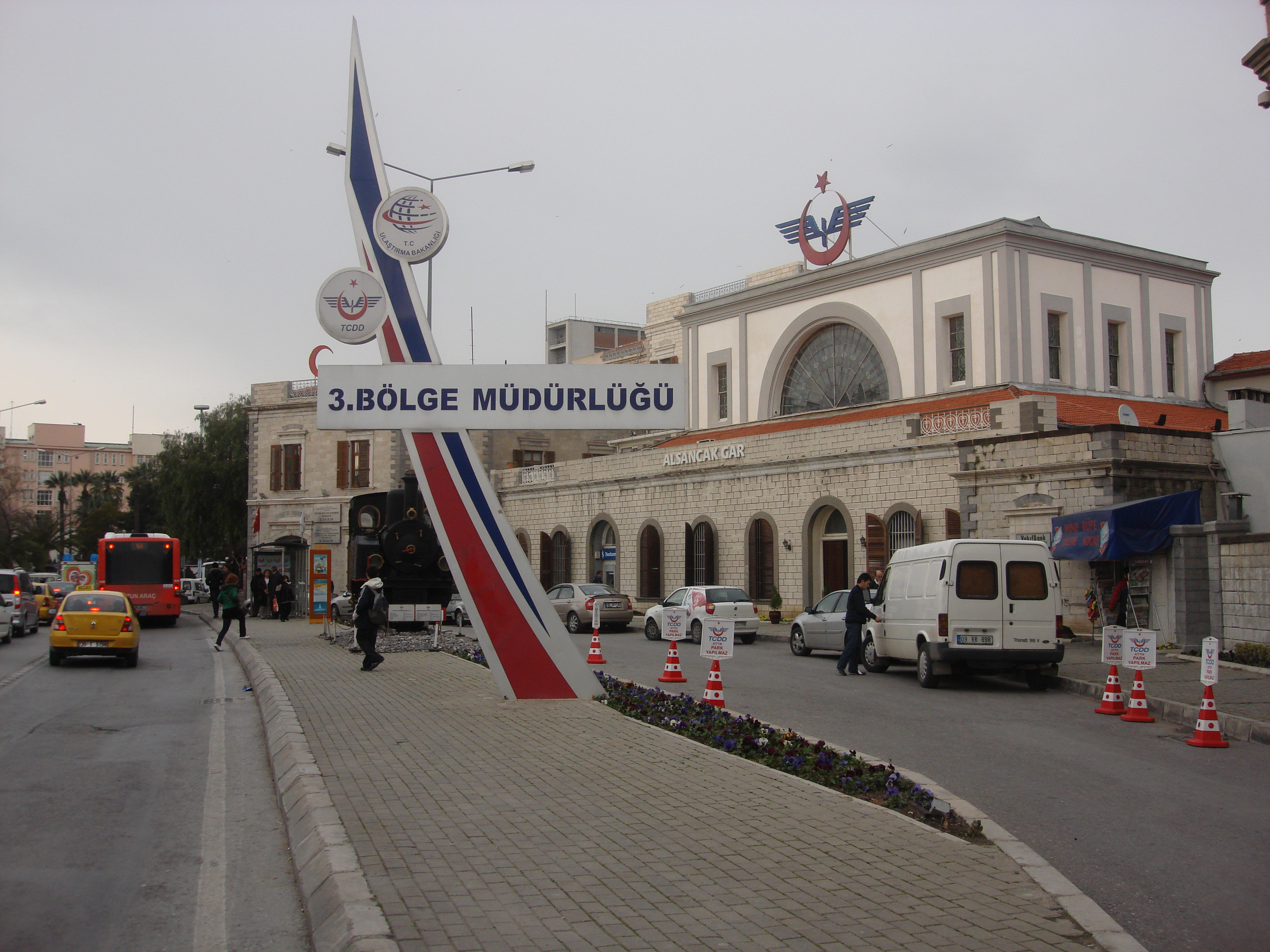 The side of Alsancak station.